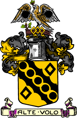 The coat of arms of the Heywood Municipal Borough Council. Granted in 1881: ARMS: Or five Pellets between two Bendlets engrailed the whole between as many Mascles Sable. CREST: On a Wreath of the Colours in front of the Trunk of a Tree eradicated fessewise and sprouting to the dexter a Falcon rising proper each wing charged with a Pellet and holding in the beak a Sprig of Oak also proper three Mascles interlaced Or. MOTTO: ALTE VOLO